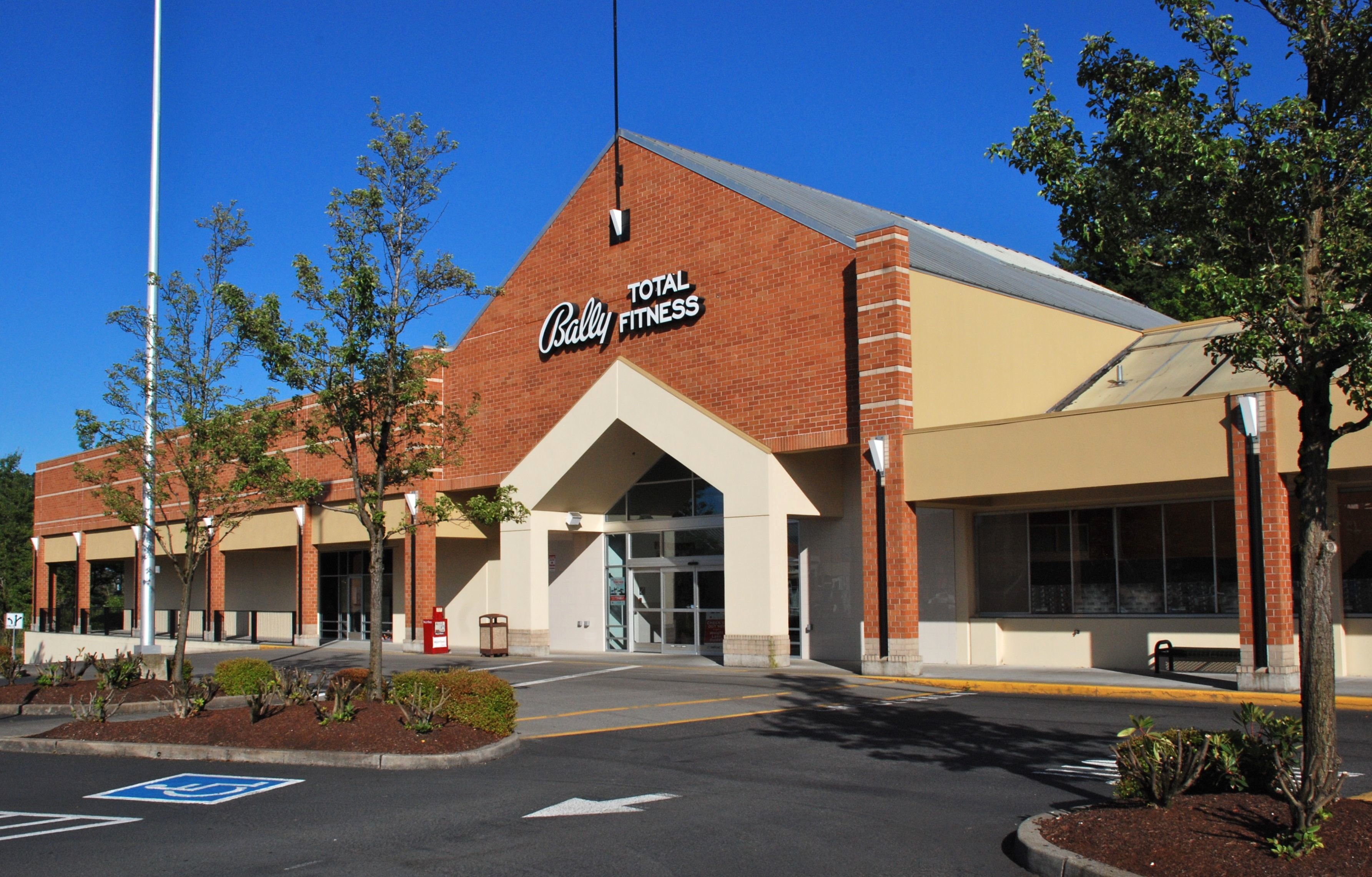 The Bally Total Fitness location in the Peterkort Town Square shopping center, on Barnes Road, in Beaverton, Oregon (within the Portland metropolitan area). This is also in the southernmost part of the mostly unincorporated Cedar Mill area, and Bally referred to this gym as its Cedar Mill location, but Peterkort Town Square was annexed by Beaverton in 2005. This Bally's closed in 2011, and an Orchard Supply Hardware store opened in the building in 2013.